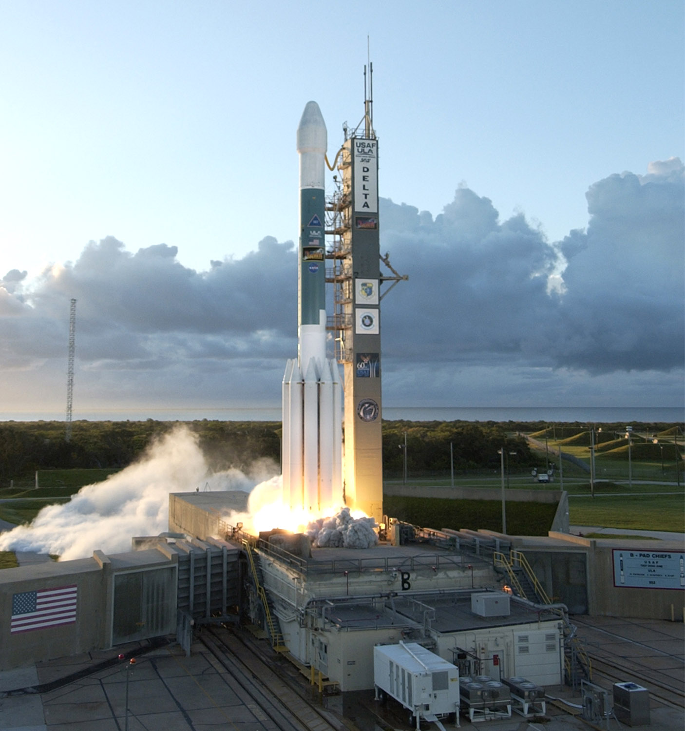 A Delta II launches from Cape Canaveral Air Force Station Space Launch Complex 17B, Florida, carrying NASA's Dawn probe into space.